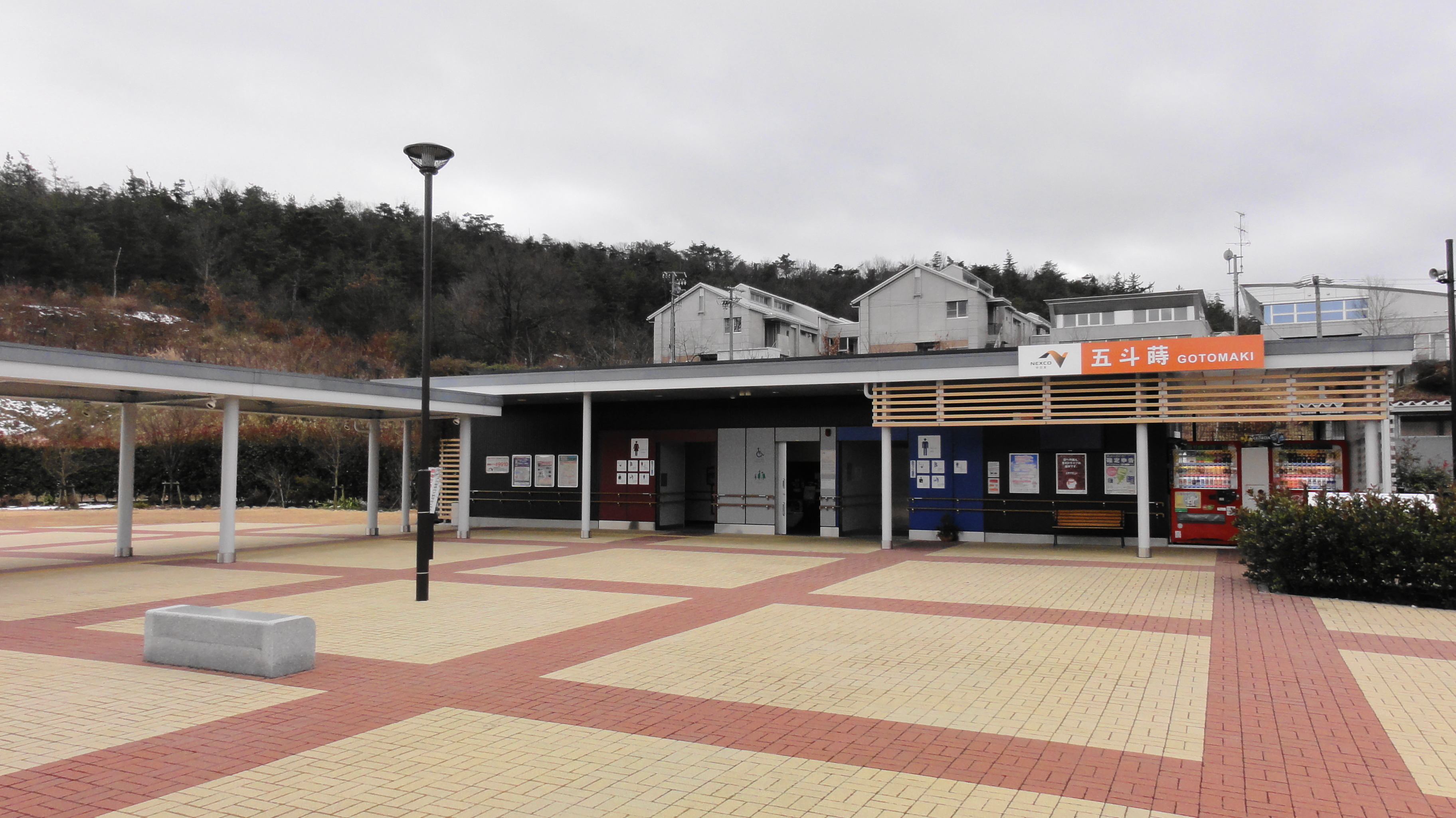 Gotomaki PakingArea,Gifu pref..,Japan